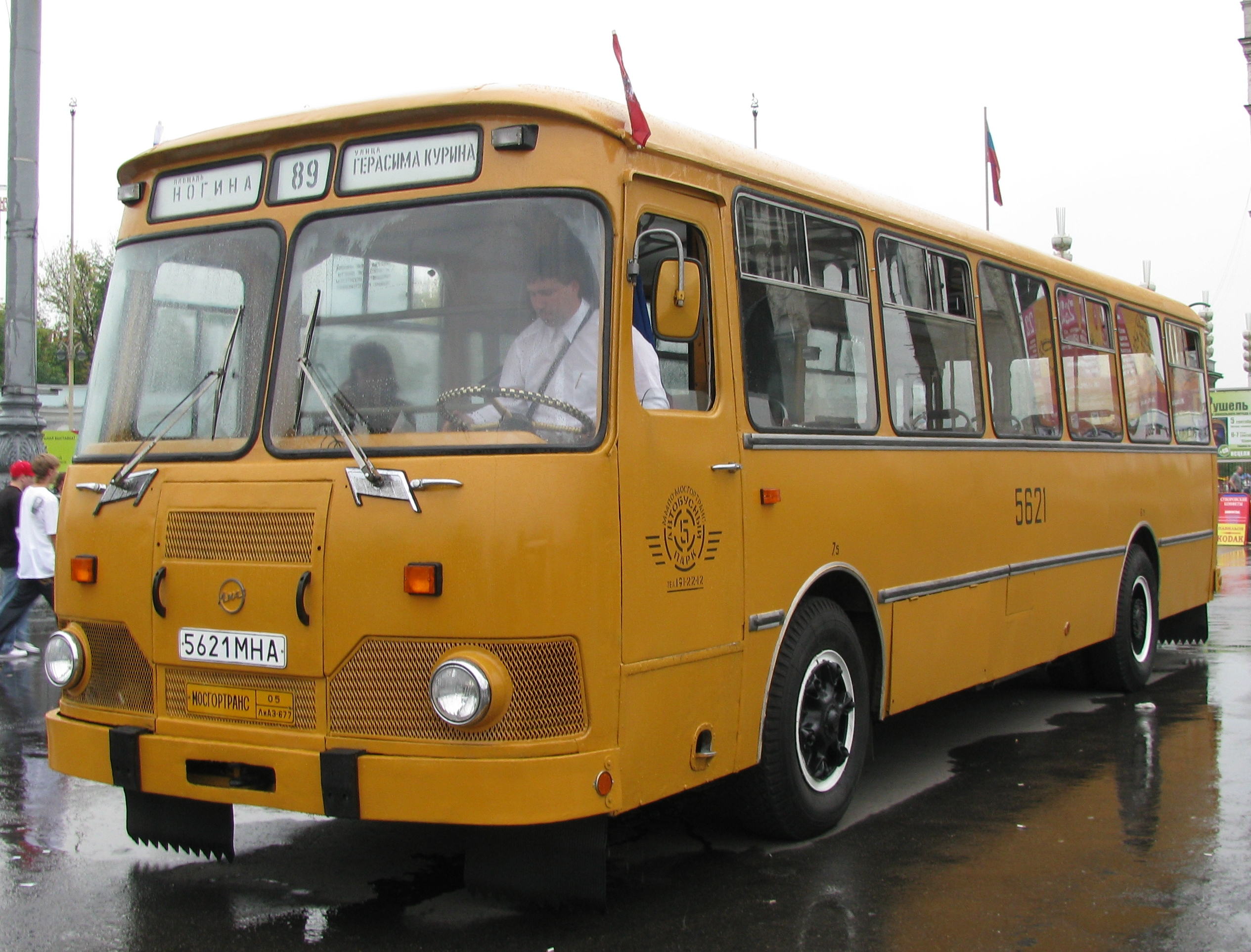 LiAZ-677M in Moscow